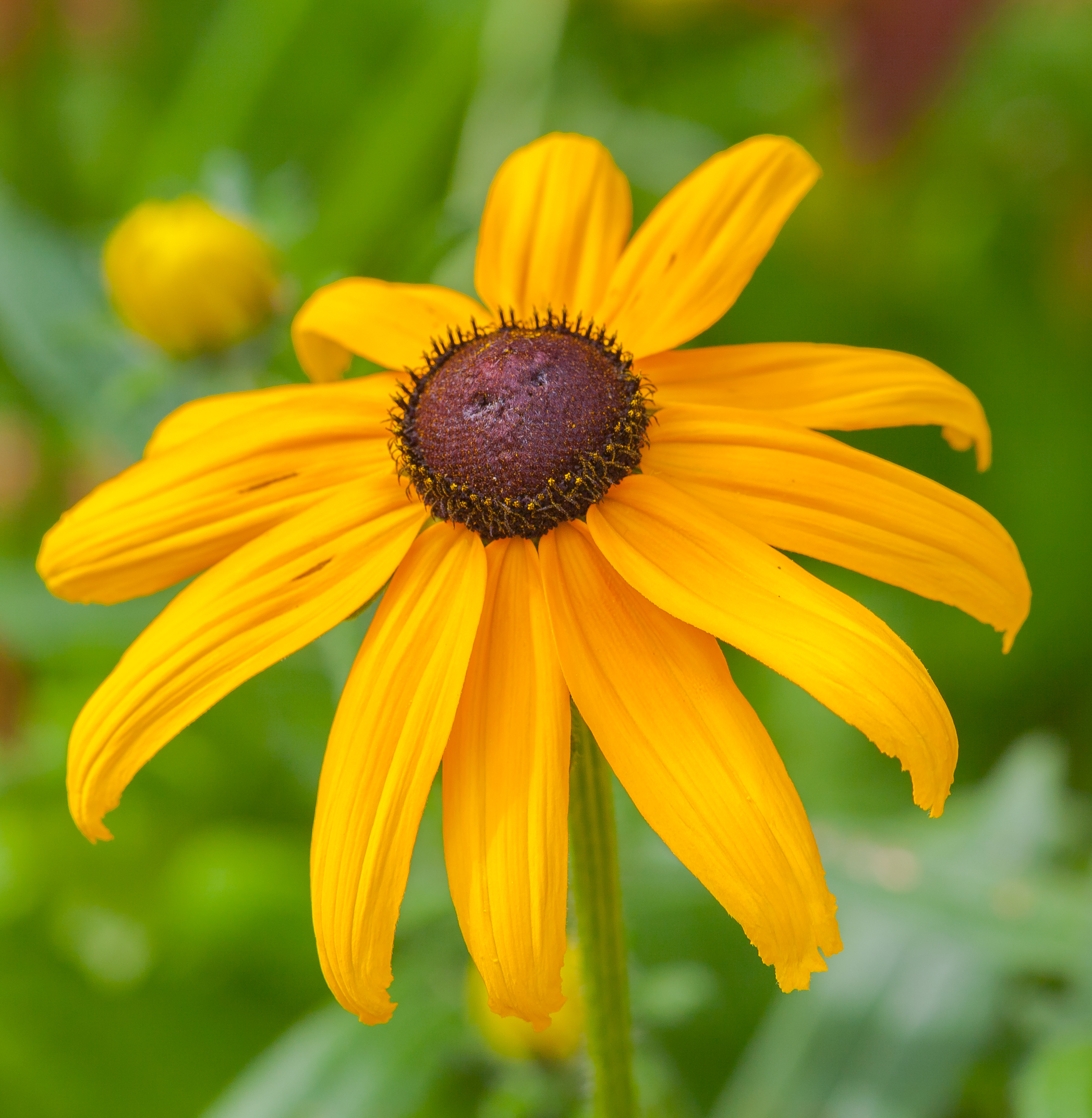 Orange Coneflower (Rudbeckia fulgida), center of Tallinn, Estonia